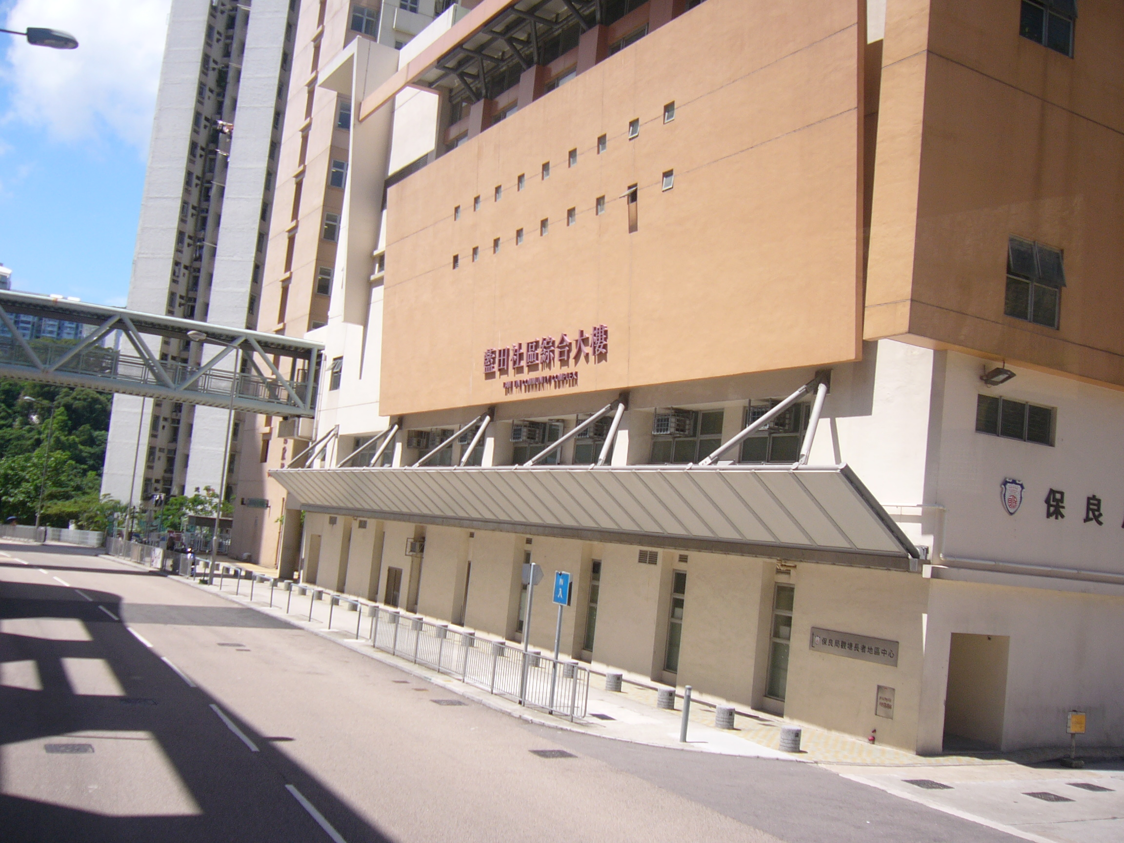 Lam Tin Community Complex